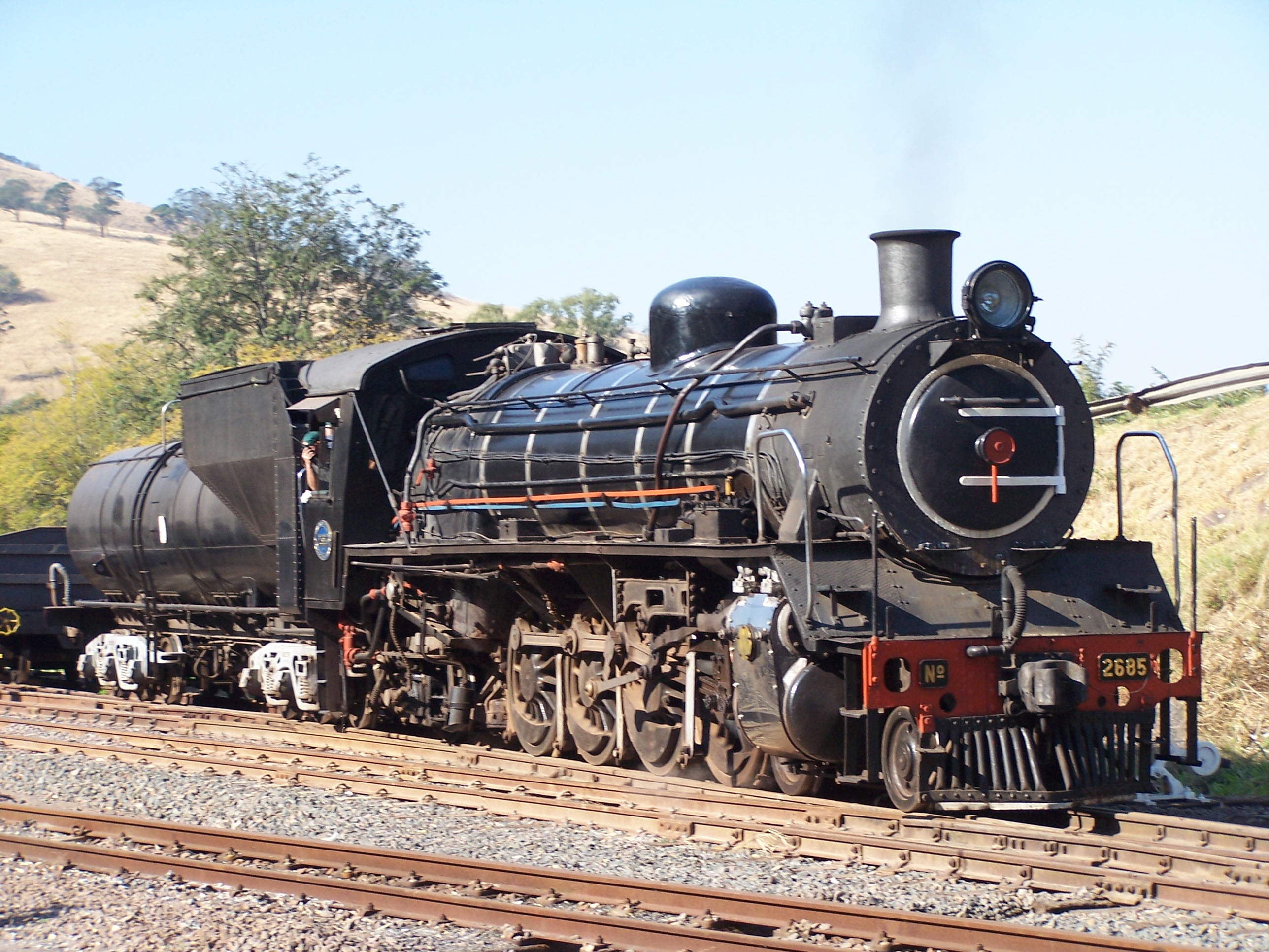 Wesley shunting at Inchanga Yard in 2006